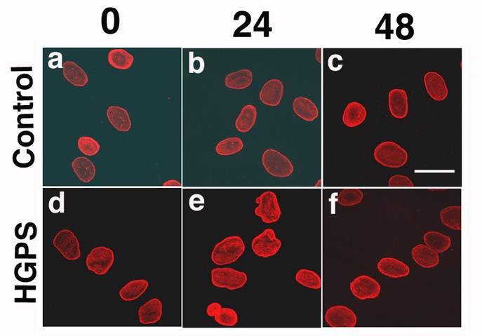 Confocal analysis of dermal fibroblasts after heat shock stress. Cells were incubated at 45°C for 30 minutes, then either immediately fixed (time 0) or allowed to recover for 24 or 48 hours at 37°C. Cells were processed for indirect immunofluorescence labelling using anti-lamin A/C antibodies (panel A, a to f), anti-lamin B1 antibodies (panel B, g to r) and anti-vimentin antibodies (panel B j to i and p to r). Control and HGPS fibroblasts are indicated. (A) Fibroblasts were immunostained with anti-lamin A/C antibodies. Note the increased number of dysmorphic nuclei in HGPS fibroblasts compared to control 24 hours after recovery from heat shock. (B) Fibroblasts were immunostained with anti-lamin B1 and vimentin at times indicated after heat shock. Bar, 10 μm. Paradisi et al. BMC Cell Biology 2005 6:27